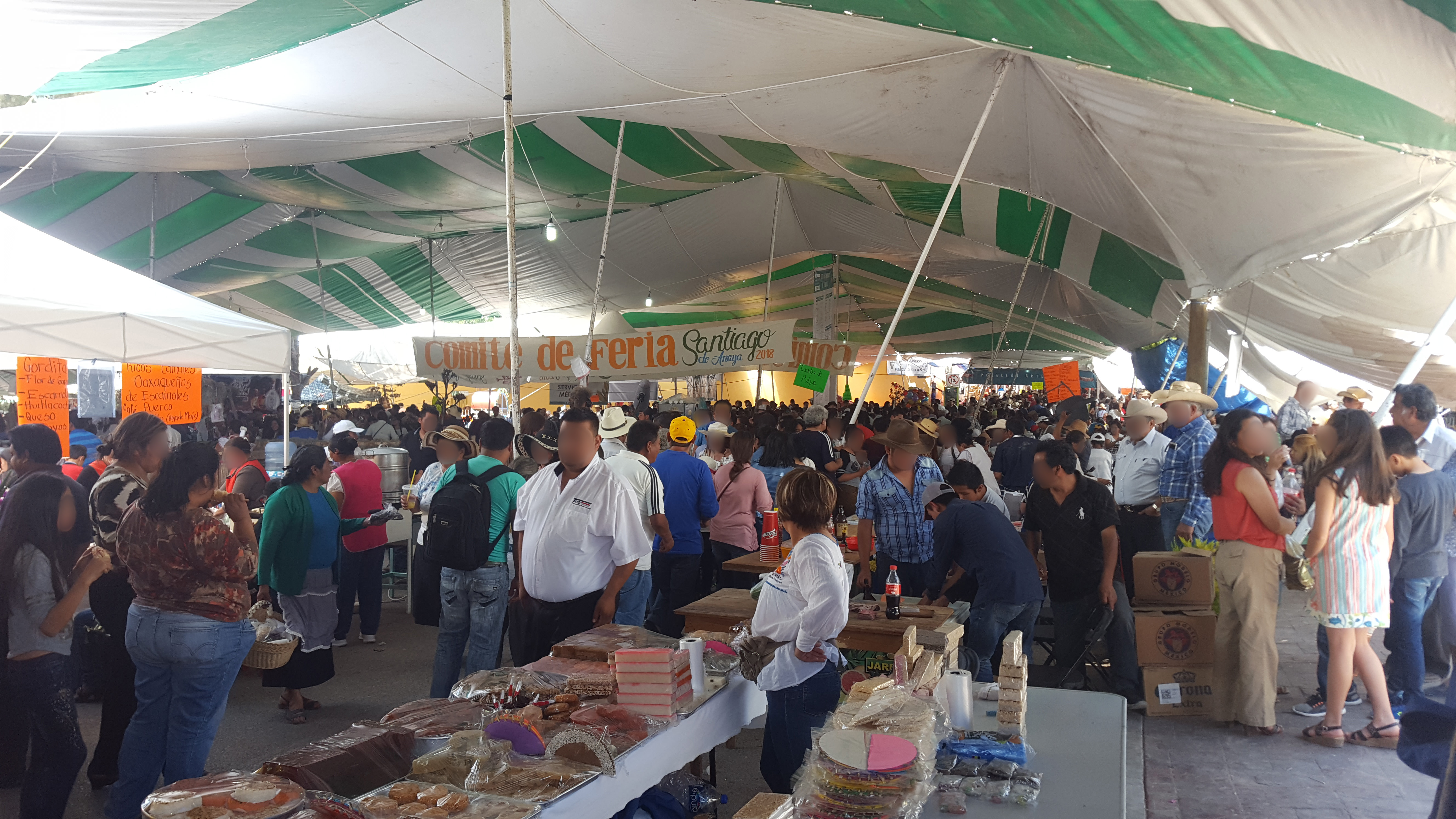 View of the XXXVIII Gastronomical fair of Santiago de Anaya, in the state of Hidalgo, Mexico.